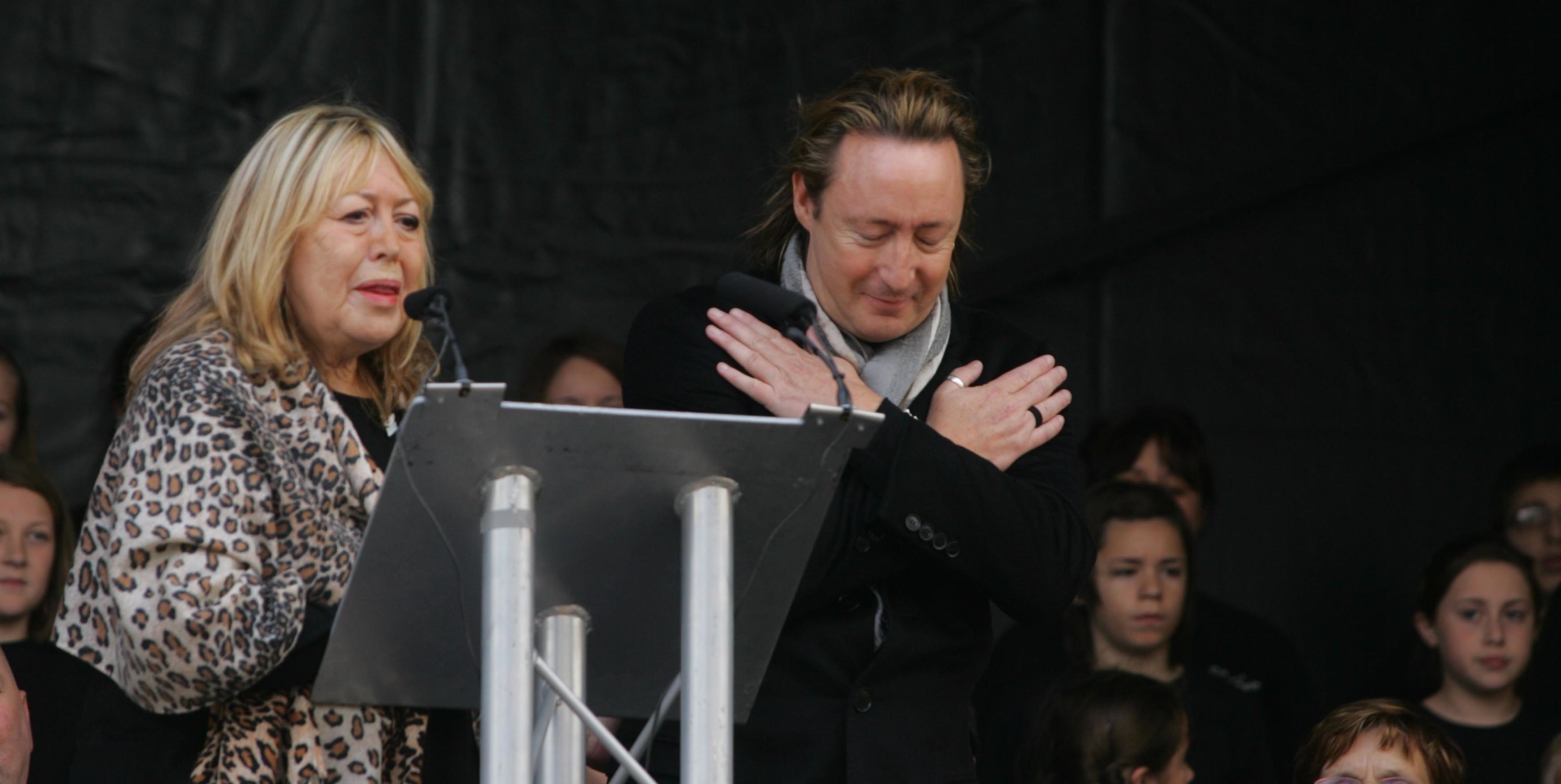 Cynthia and Julian Lennon at the unveiling of the John Lennon Peace Monument in Chavasse Park, Liverpool on 9th October 2010 with the Liverpool Signing Choir in the background. Celebrating peace and the loving memory of John Lennon on what would have been Lennon's 70th Birthday.